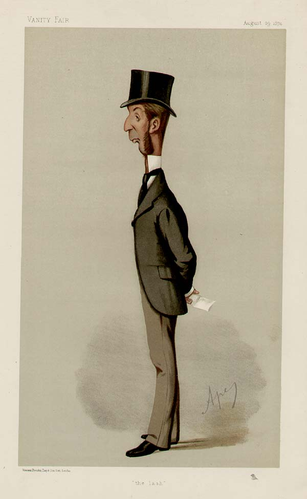 Statesmen No.183: Caricature of Mr R Winn MP. Caption reads: "the lash"